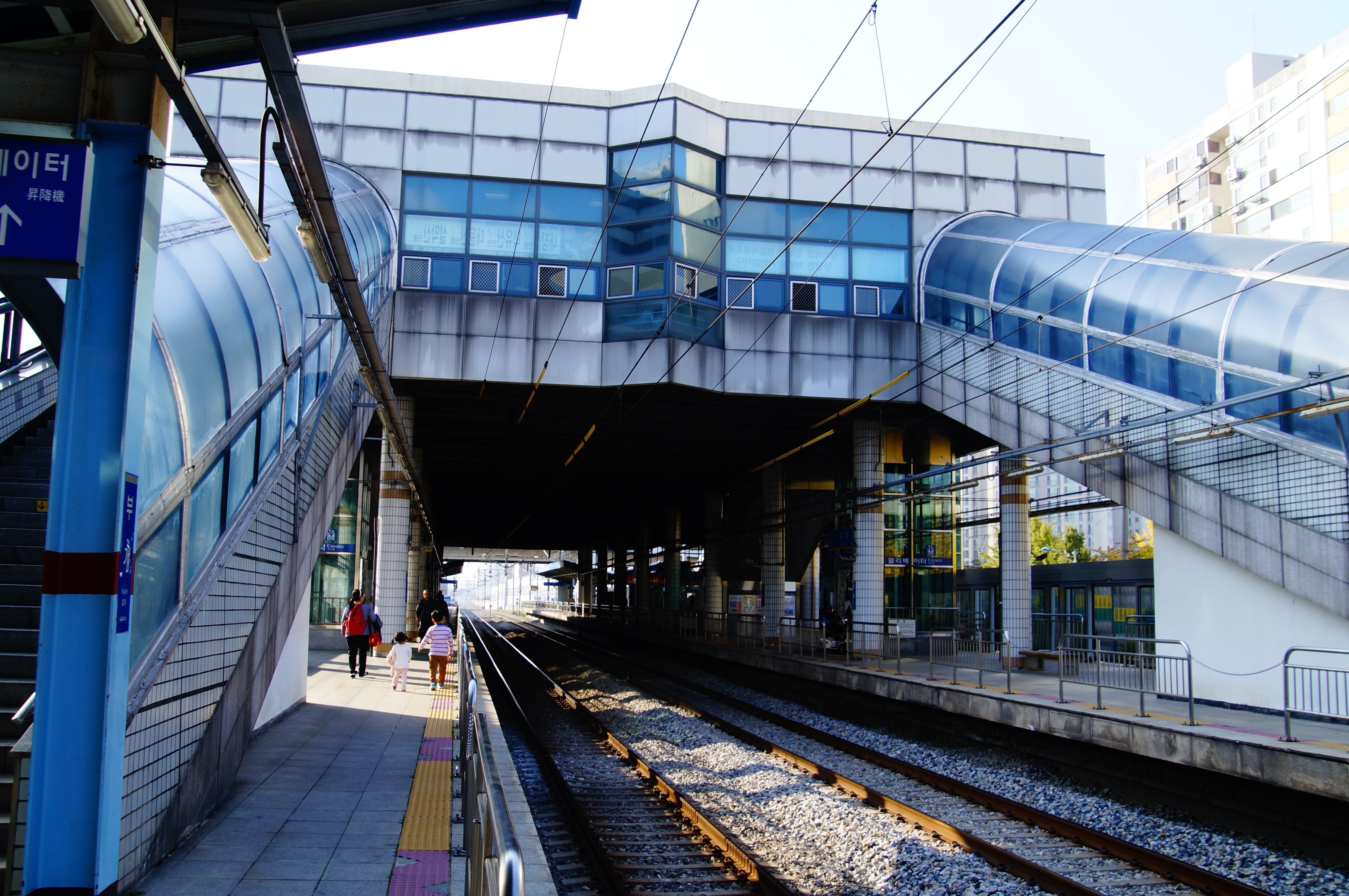 A view of Bugae Station on Seoul Subway Line 1.